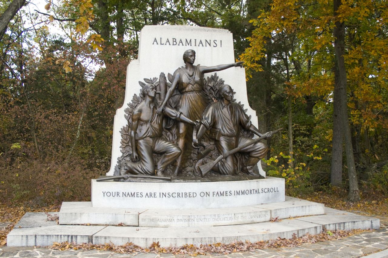 Alabama Memorial (Alabama State Monument at Gettysburg National Military Park). Statuary group was placed in a public location on November 12, 1933 (prior to 1978) without a visible copyright registration notice.